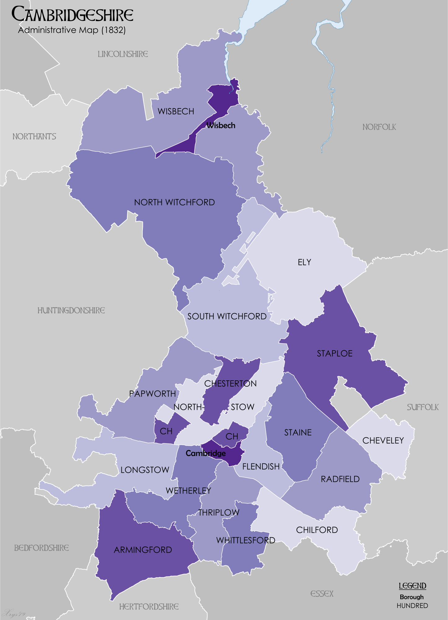 Administrative map of Cambridgeshire in 1832 showing Hundreds. Also showing extant Boroughs. Hundred boundaries from University of Nottingham English Place Name Society. Source data for parish boundaries - Kain, R.J.P., and Oliver, R.R. (2001) "Historic parishes of England and Wales". Unit names and Borough Boundaries from Vision of Britain website.